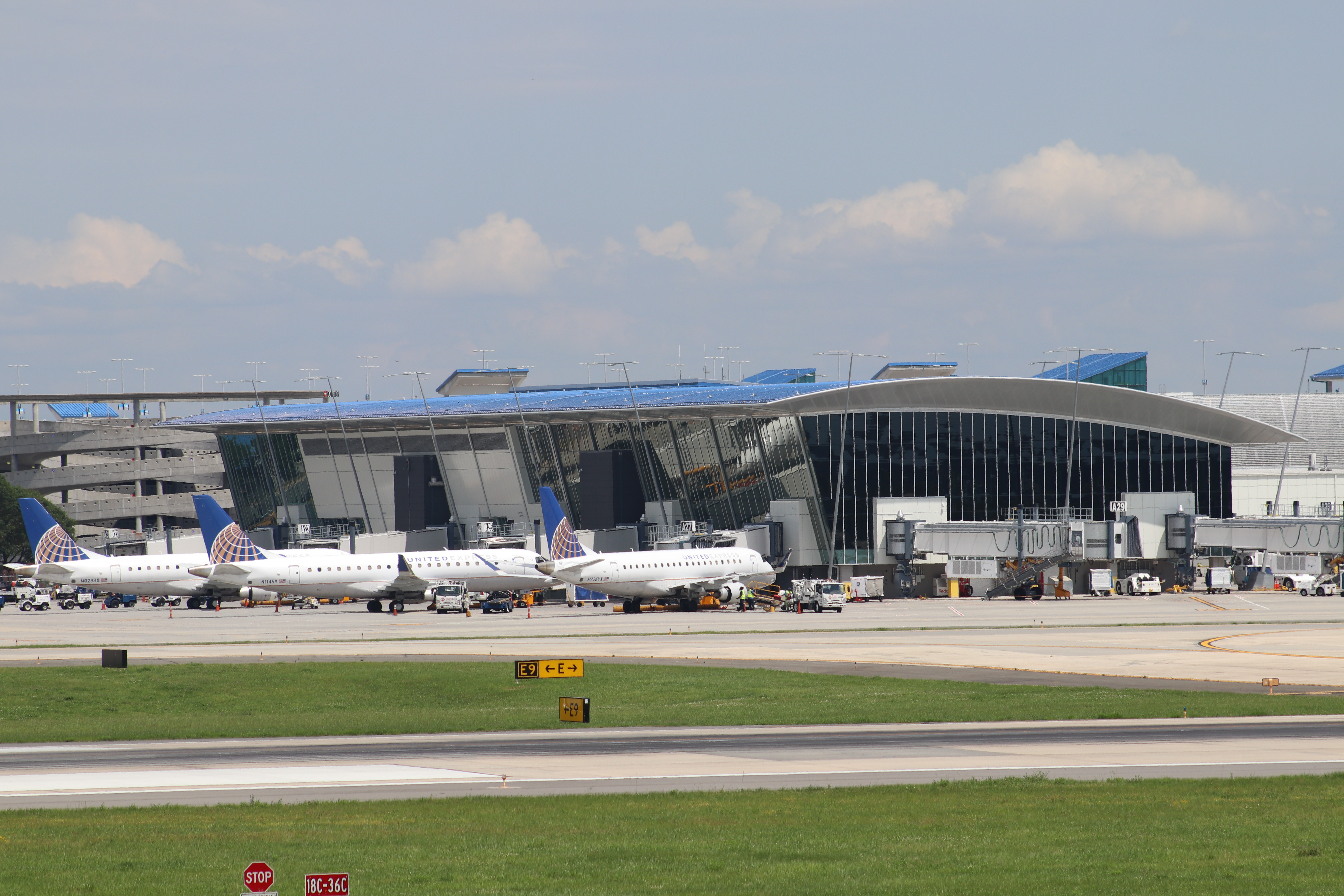 United aircraft are shown at gates on the north side of CLT's Concourse A North expansion project.